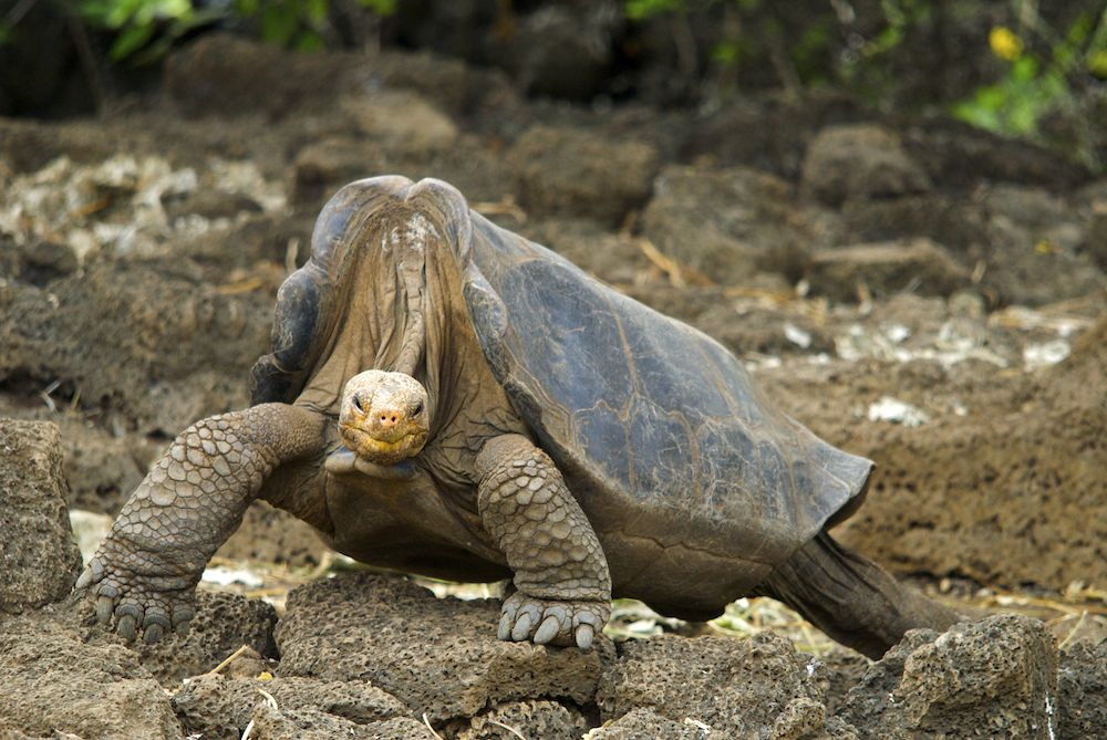 This Pinta Island Tortoise (Chelonoidis nigra abingdoni), an individual called Lonesome George, died in 2012